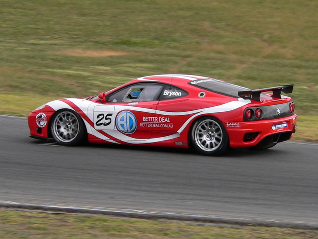 2006 Australian GT Championship season Ferrari 360 Challenge race car number 25 driven by Neil Bryson during Round 5 at Mallala Motor Sport Park